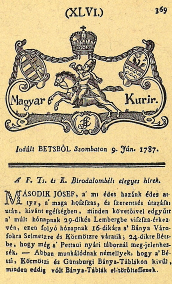 Magyar Kurir, 1787, Newspaper of Hungary